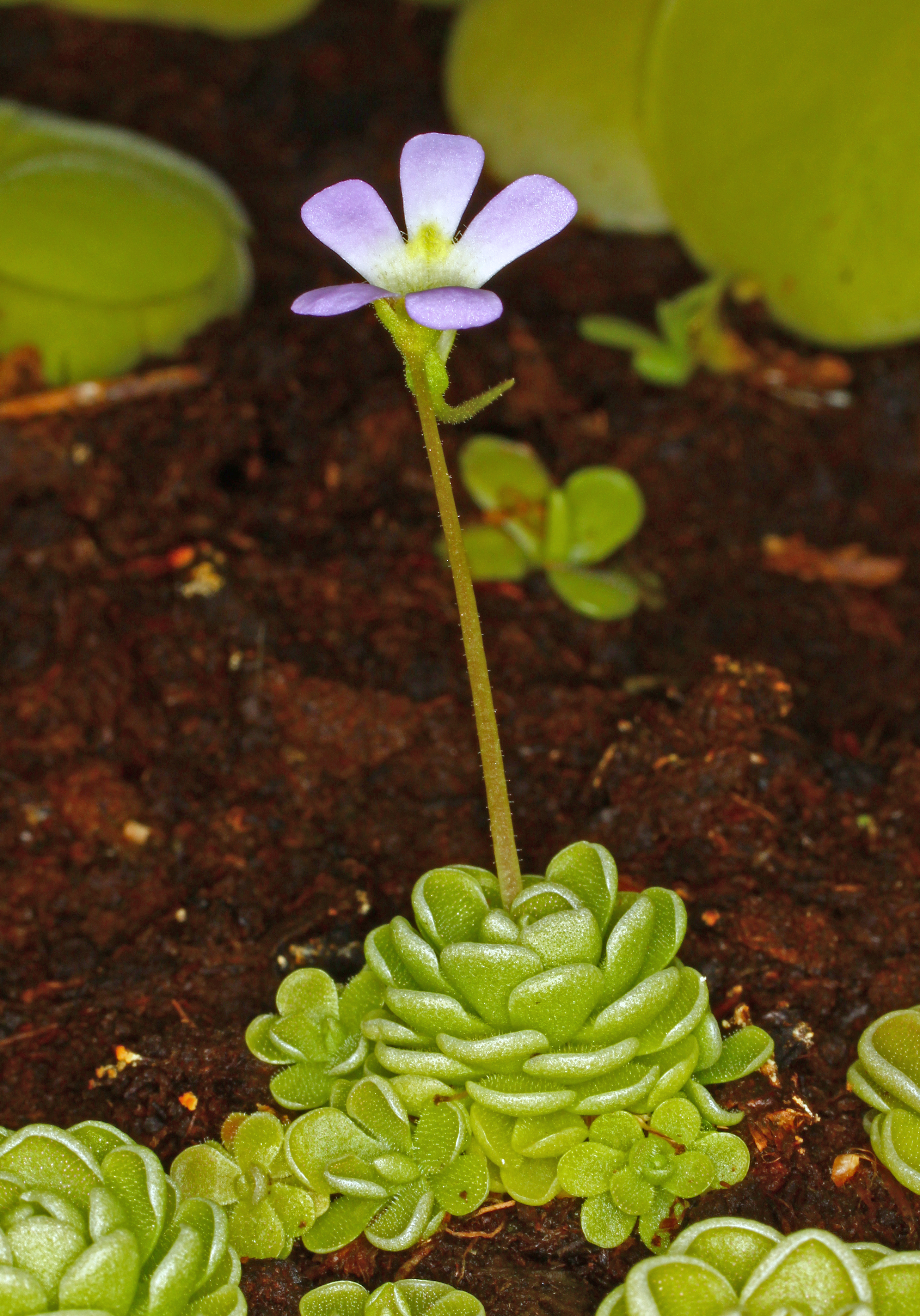 Habitus. Botanical Garden KIT, Karlsruhe, Germany.